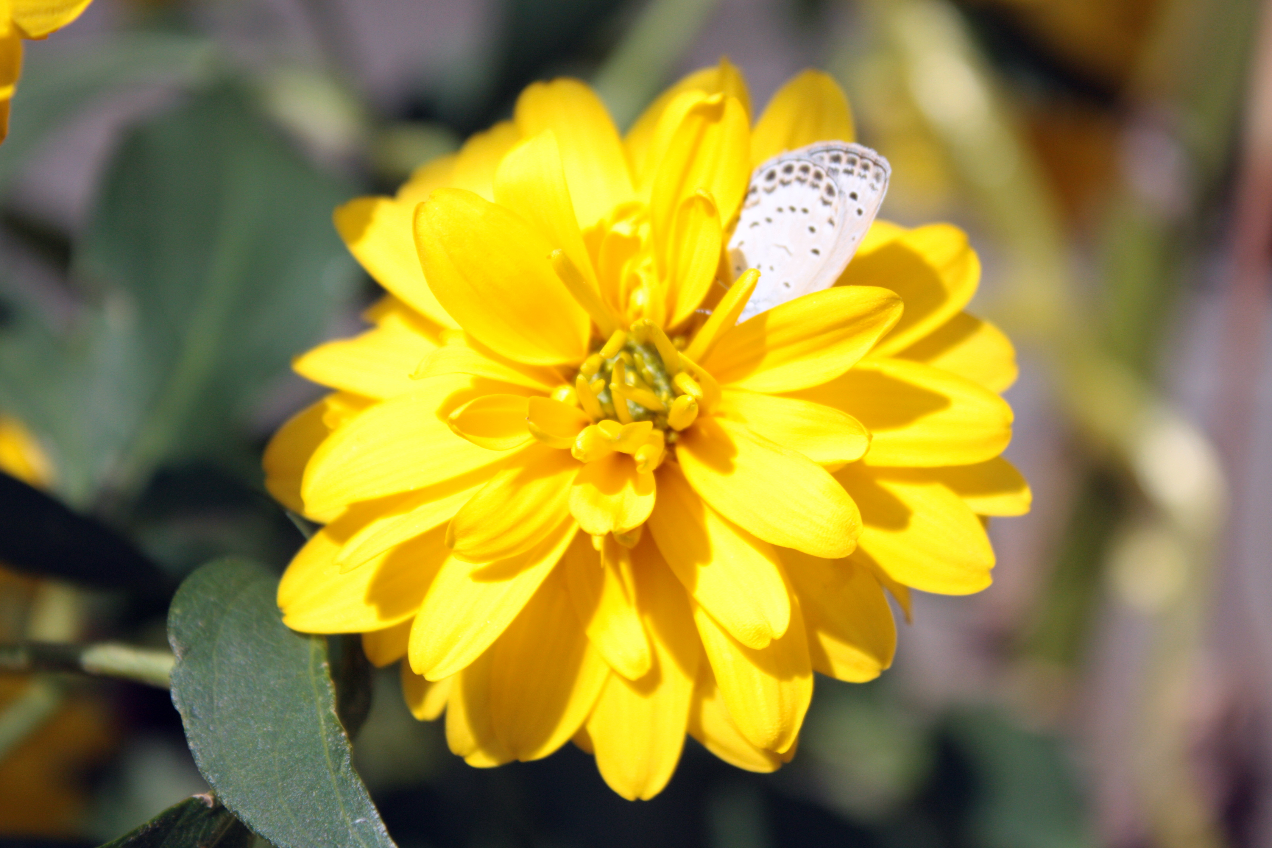 Rudbeckia laciniata var. hortensis